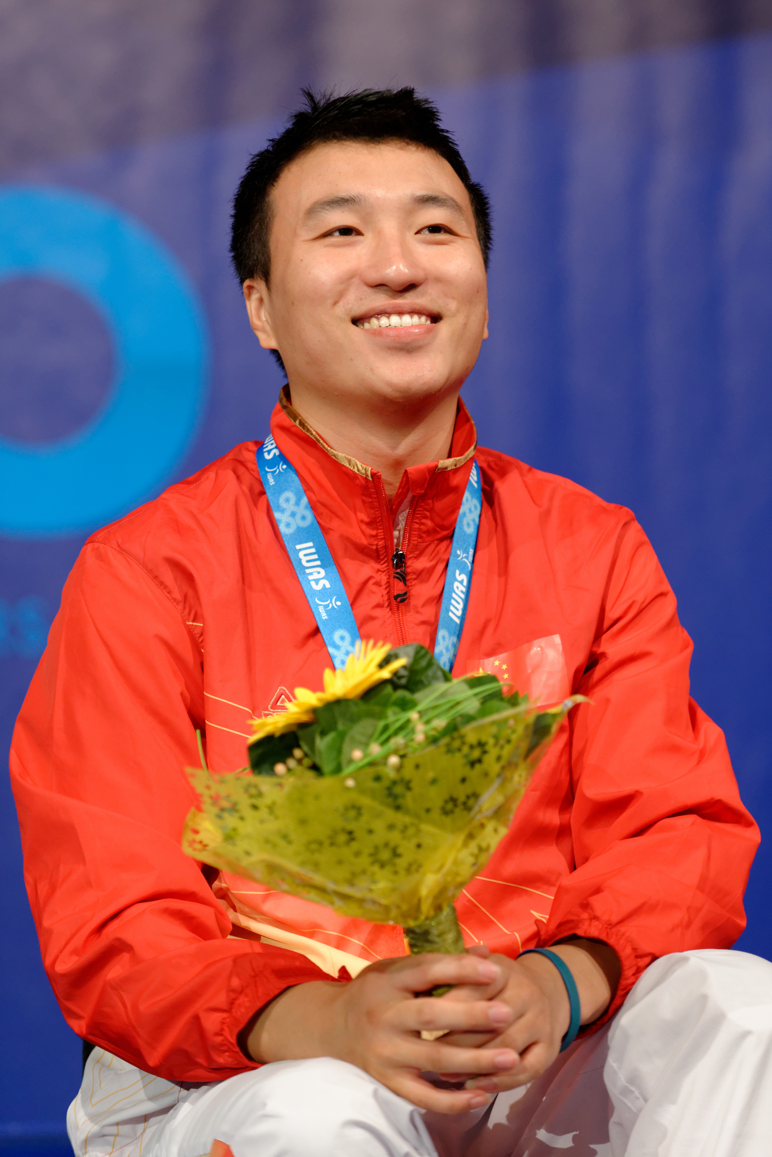 Ruyi Ye of China at the award ceremony of men's foil A at the 2013 IWAS World Fencing Championships 2013 at Syma Hall in Budapest on 9 August 2013.